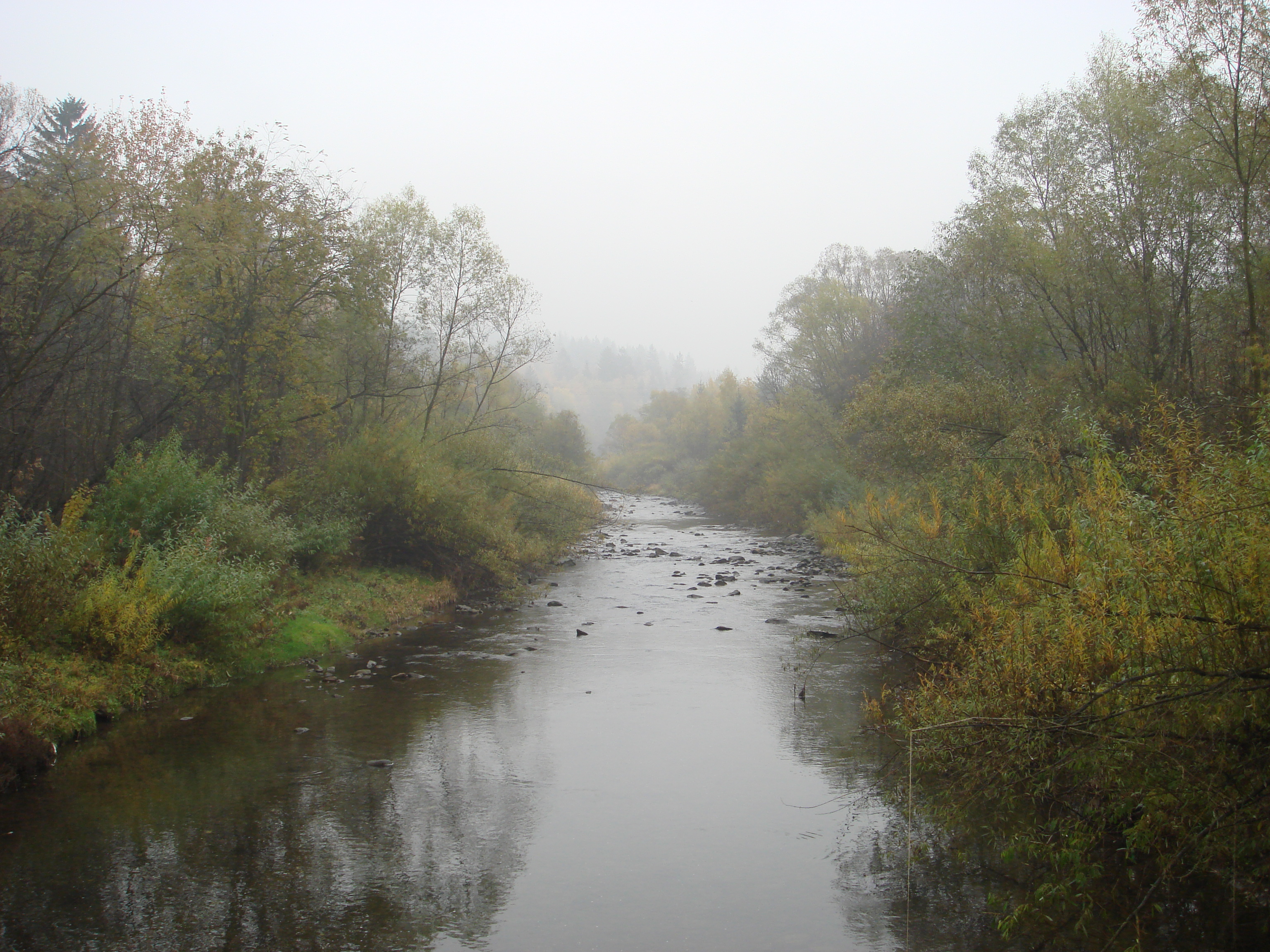 View of the Olza/Olše river from a foot bridge above Bukovec (Moravian-Silesian Region, Czech Republic).